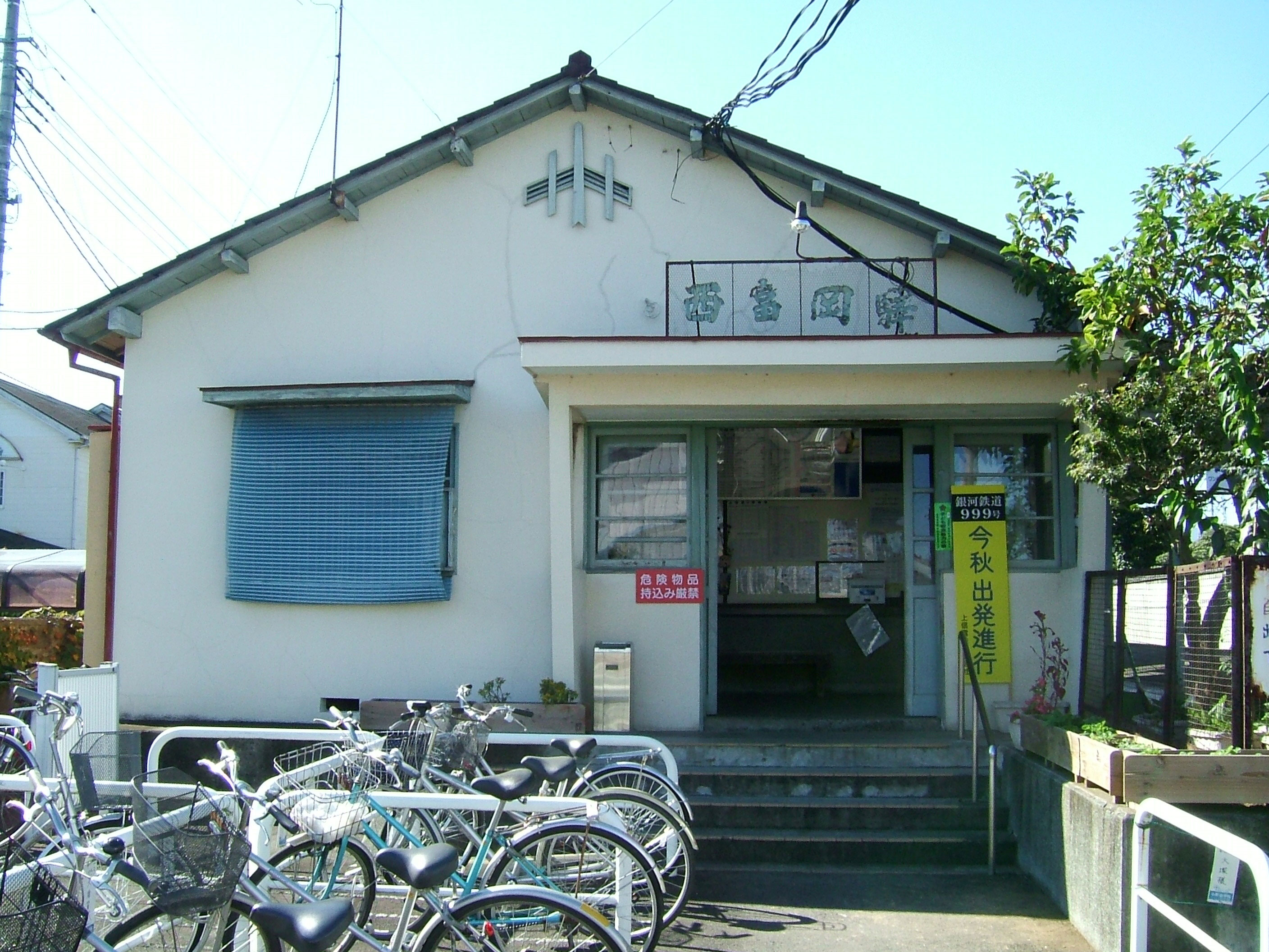 Nishi-Tomioka Station building (Jōshin Dentetsu Jōshin Line)